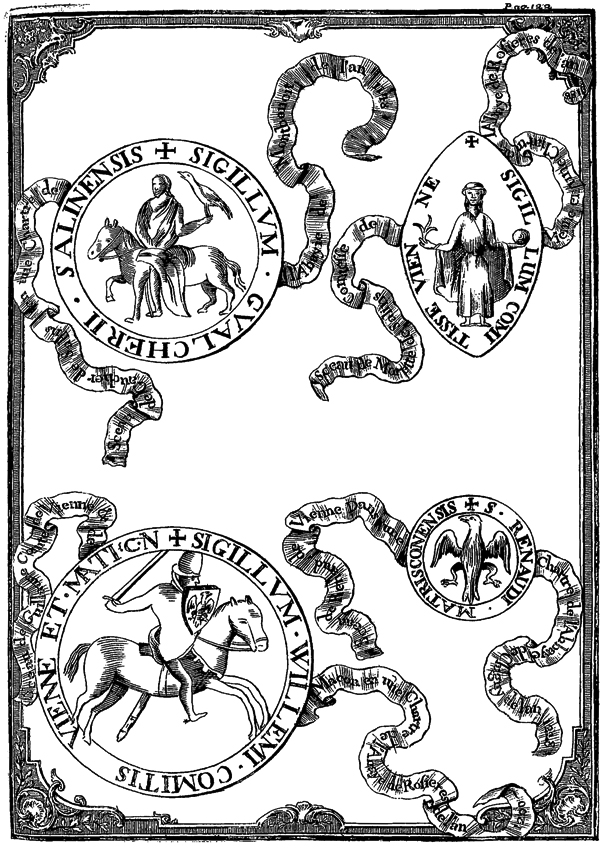 Sceaux de Gaucher III de Salins, de Maurette de Salins, de Guillaume IV de Mâcon et de Renaud de Vienne.